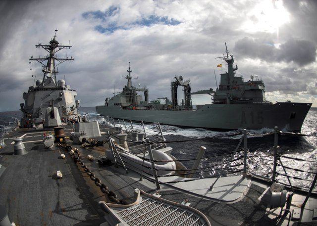 130727-N-HI414-050 CORAL SEA (July 27, 2013) Arleigh Burke-class guided-missile destroyer USS Momsen (DDG 92), left, steams alongside the Spanish combat support ship ESPS Cantabria (A-15) during a replenishment-at-sea in support of Talisman Saber 2013. Talisman Saber 2013 is a biennial training activity aimed at improving Australian and U.S. combat readiness and interoperability. (U.S. Navy photo by Mass Communication Specialist 3rd Class Gregory A. Harden II/Released).